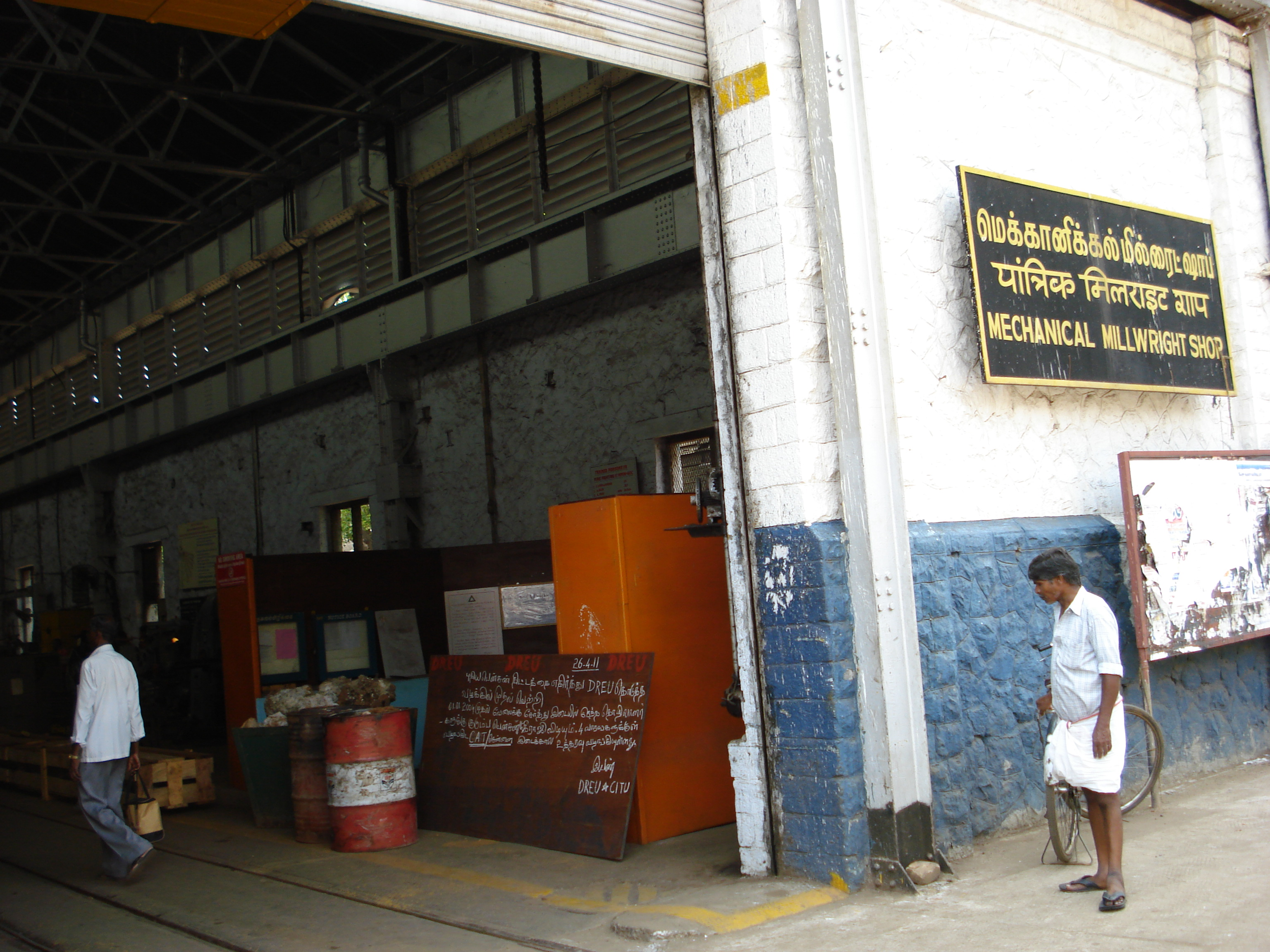 A view of Mechanical Mill Wright shop, which is inside the Central Workshop, Golden Rock, Tiruchirapalli.